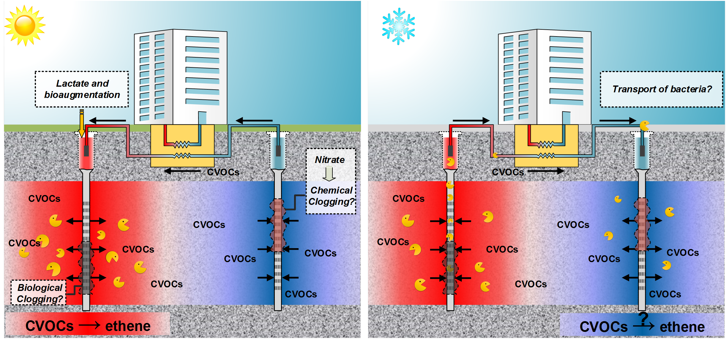 ATES-ENA